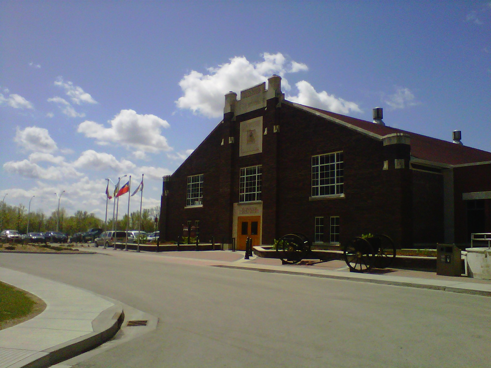 Drill Hall at Depot Division